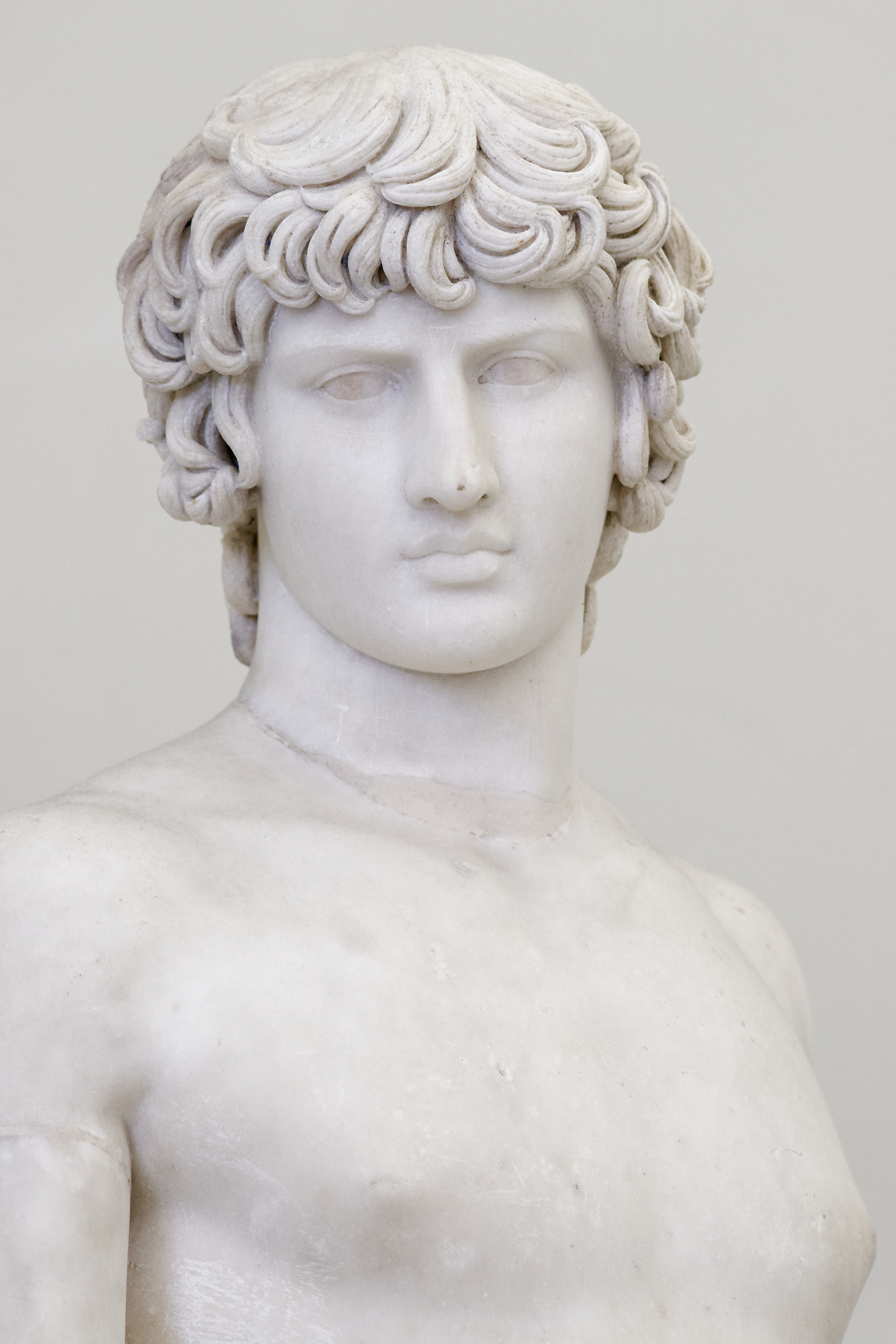 Statue of Antinous. Reelaboration of the 2nd century AD after a Greek original of the Late Classical period.